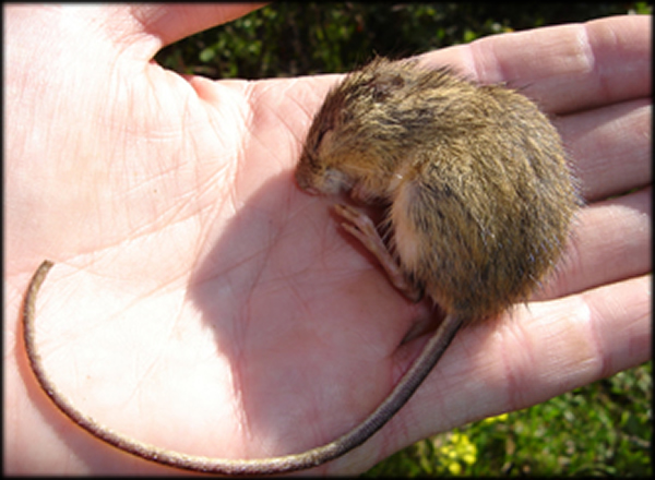 The Preble's meadow jumping mouse (Zapus hudonius preblei) (Preble's or PMJM) is a small mammal approximately 9-inches in length with large hind feet adapted for jumping, a long bicolor tail (which accounts for 60% of its length), and a distinct dark stripe down the middle of its back, bordered on either side by gray to orange-brown fur. This largely nocturnal mouse lives primarily in heavily vegetated, shrub dominated riparian (streamside) habitats and immediately adjacent upland habitats along the foothills of southeastern Wyoming south to Colorado Springs along the eastern edge of the Front Range of Colorado. The Preble's mouse enters hibernation in September or October and doesn't emerge until May. Its diet changes seasonally and consists of insects, seeds, fungus, fruit and more. In May of 2013, the U.S. Fish and Wildlife Service announced the completion of a 12-month status review in response to two petitions to delist the mouse. Habitat loss continues to threaten the existence of the mouse throughout its range in Colorado and Wyoming. As a result, the Preble's retains its protections as a threatened species under the Act. In this photo, the mouse is shown in torpor, a form of hibernation/sleep. Photo Credit: USFWS